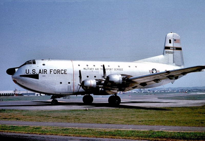 Military Air Transport Service Douglas C-124A-DL Globemaster II 50-1256, about 1960 (USAF Photo)